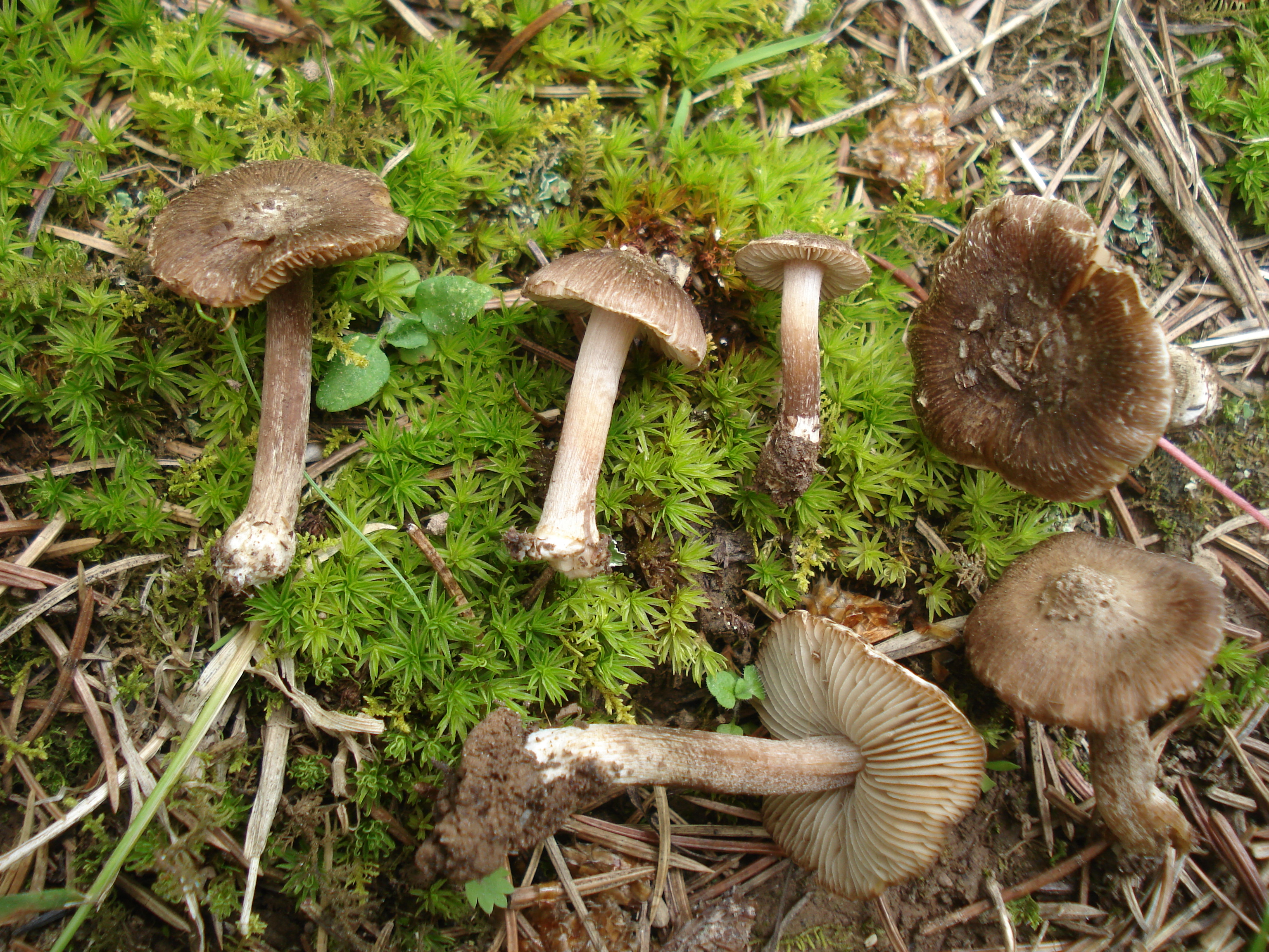 Inocybe assimilata Britzelm. Image location: Luzerne Co., Pennsylvania, USA No odor. Under spruce. Recognized by sight For more information about this, see the observation page at Mushroom Observer.